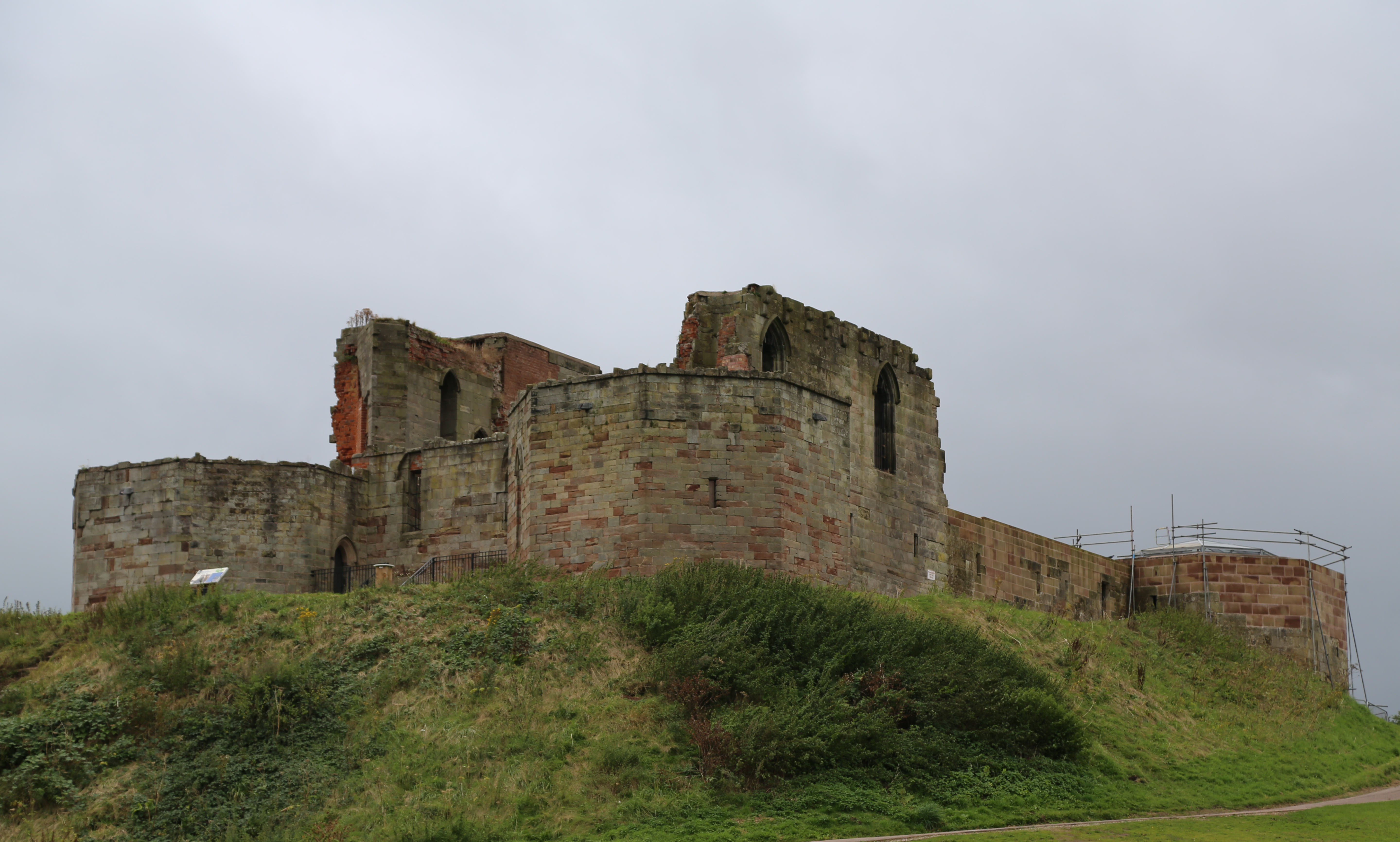 Photo of Stafford castle